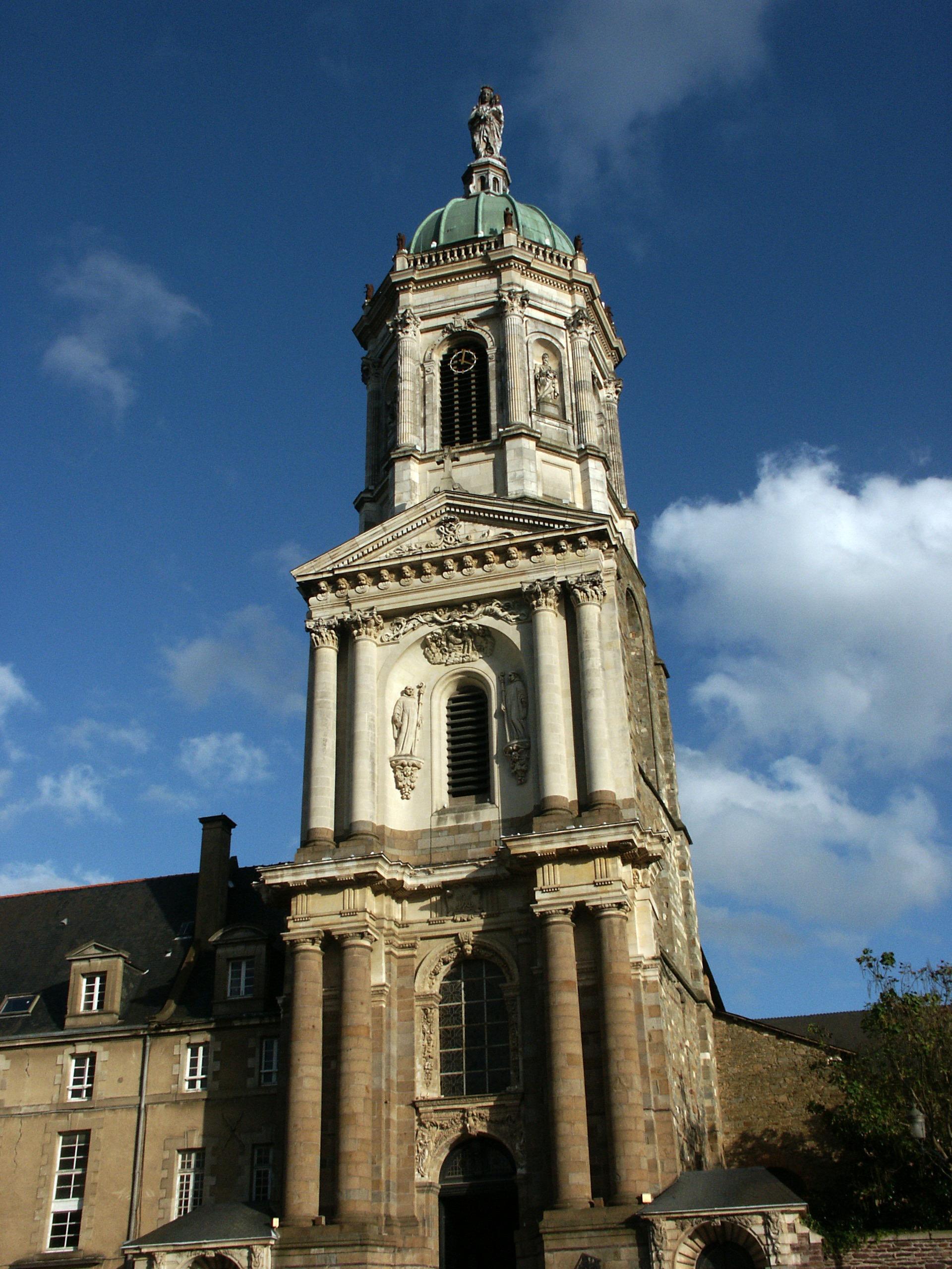 The church Notre-Dame en Saint-Mélaine in Rennes, France. This image was taken by me, User:Hullbr3ach. For attribution requirements see my userpage.